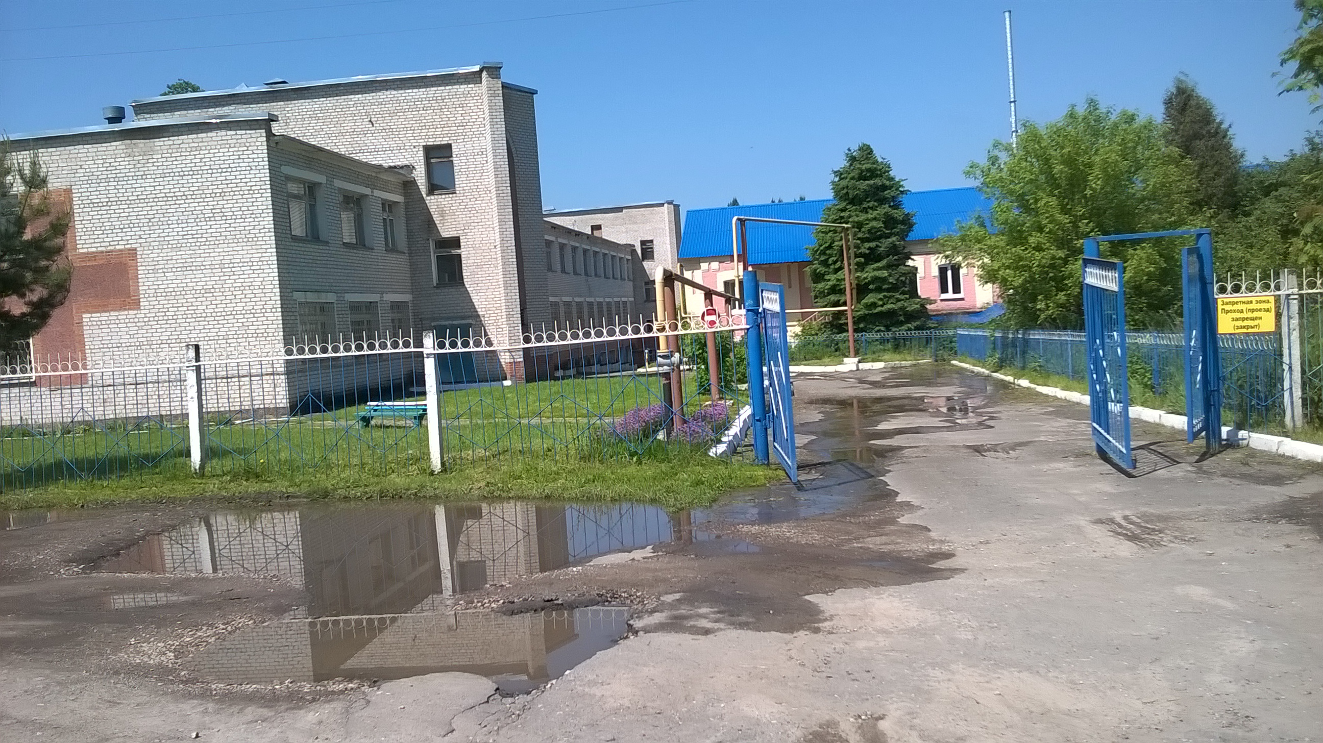 Железнодорожная больница станции Сухиничи-Главные. Справа виден одноэтажное старинное здание больницы, слева - новое здание больницы. Открытые ворота, но надпись справа гласит: Не входить! Перед воротами образовались лужи после недавних проливных дождей. Фото 8 июня 2020